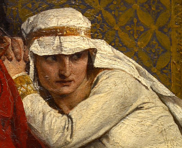 Bertha of Burgundy